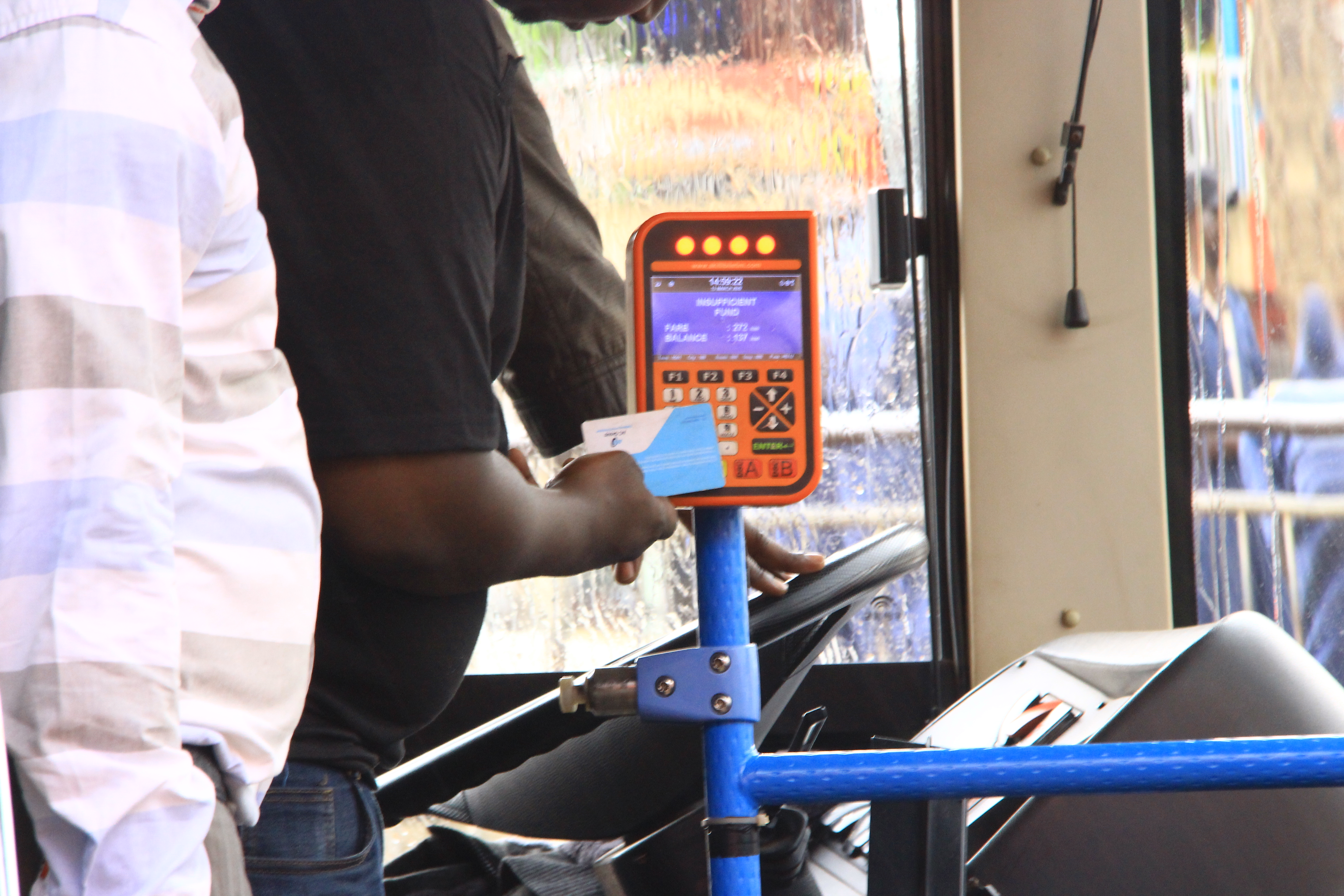 A tap and go card being used to pay the trip This is an image with the theme "Africa on the Move or Transport" from: Rwanda